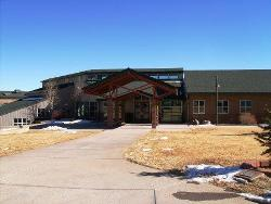 Clear Creek High School, seen from parking lot.